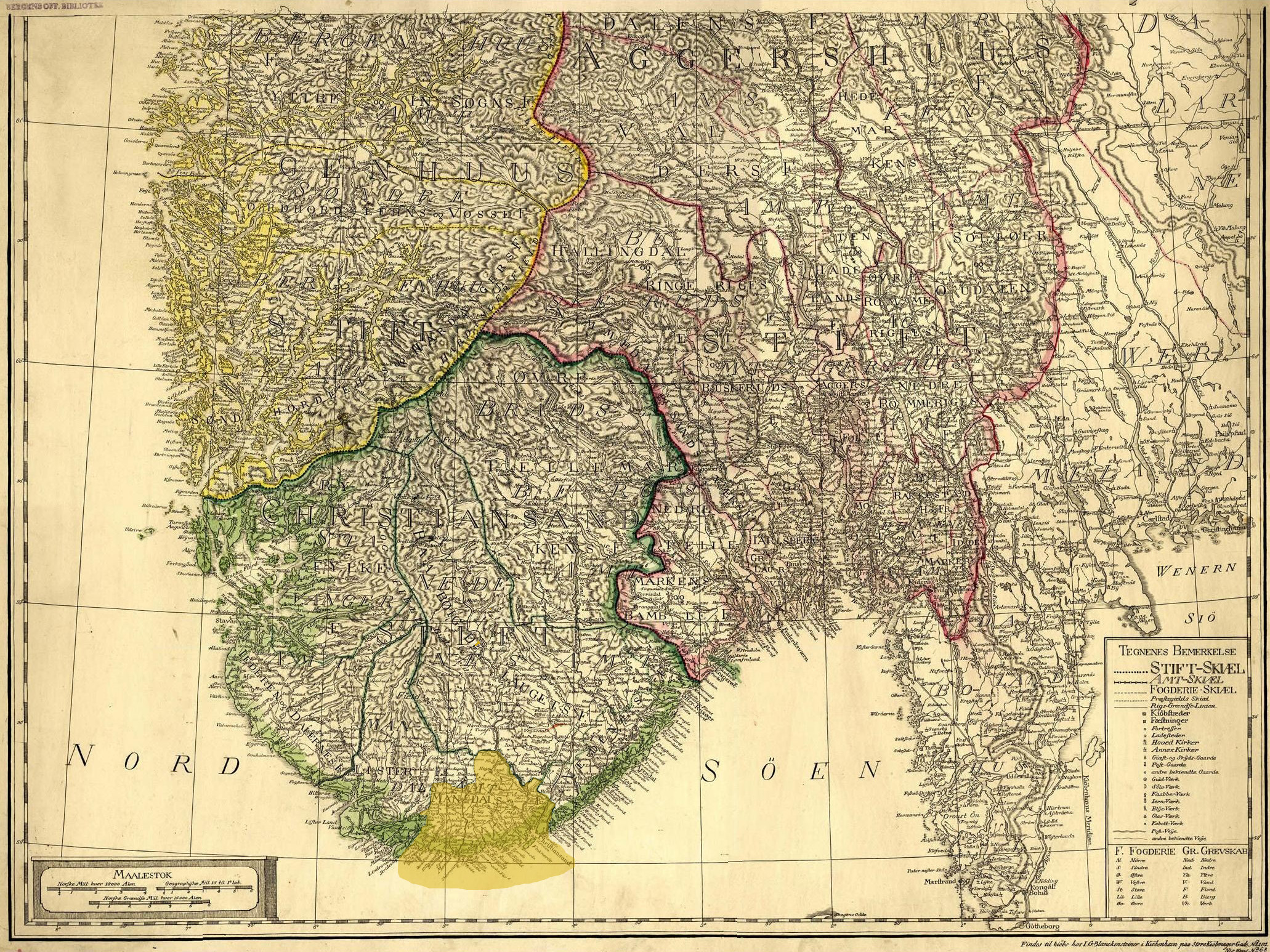 Mandals fogderi. Derivated from norwegian map from the 1880's